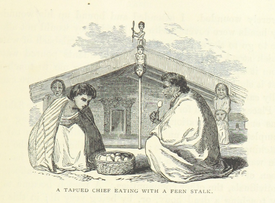 A Māori chief in the state of tapu (taboo), eating with a fern stalk